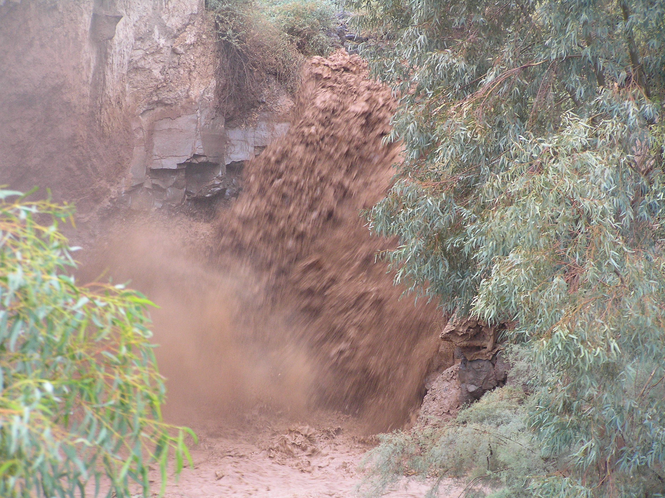 Nahal Harod, Israel זרימה חורפית ב"קניון הבזלת" בנחל חרוד